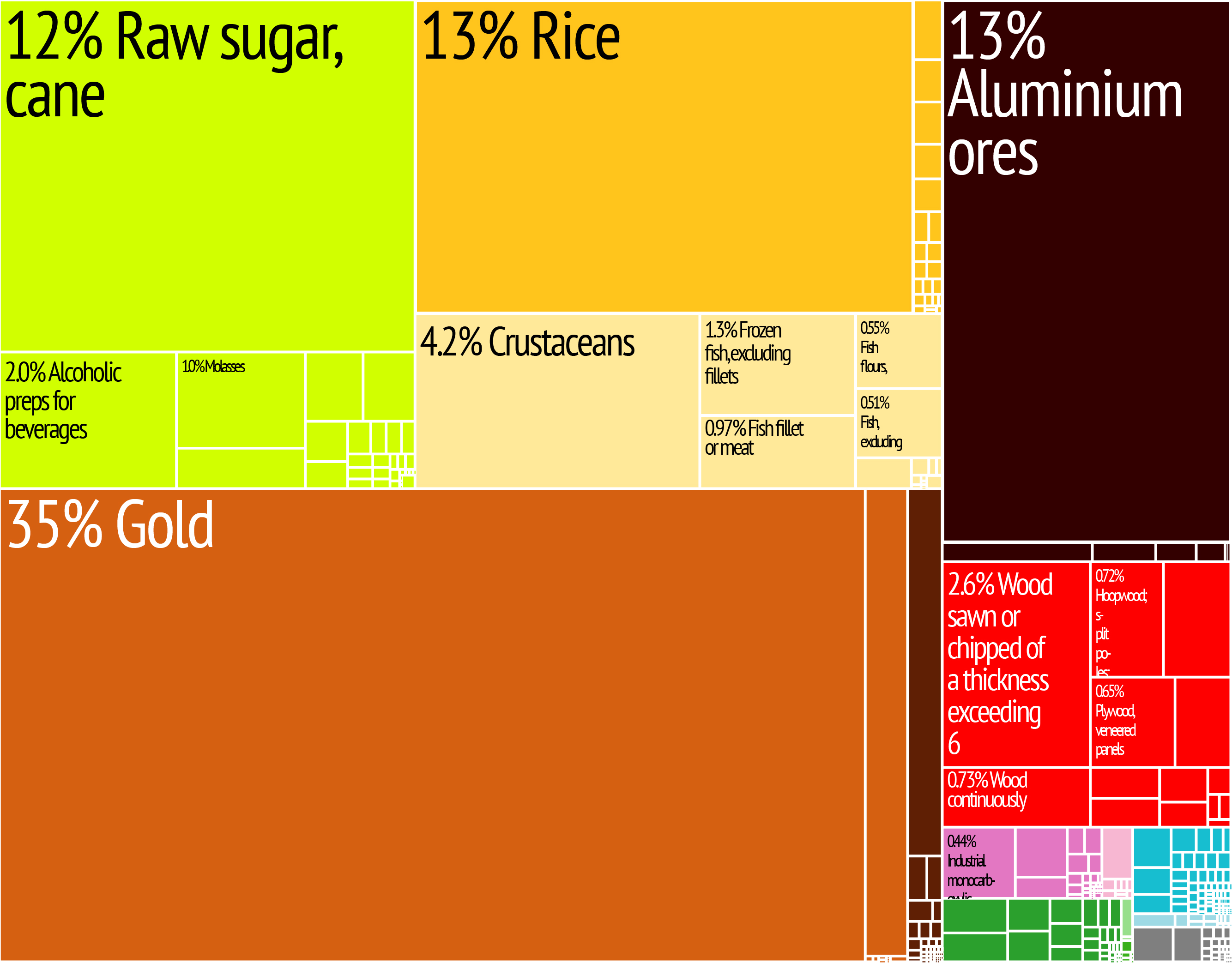 Guyana Export Treemap from MIT Harvard Economic Complexity Observatory